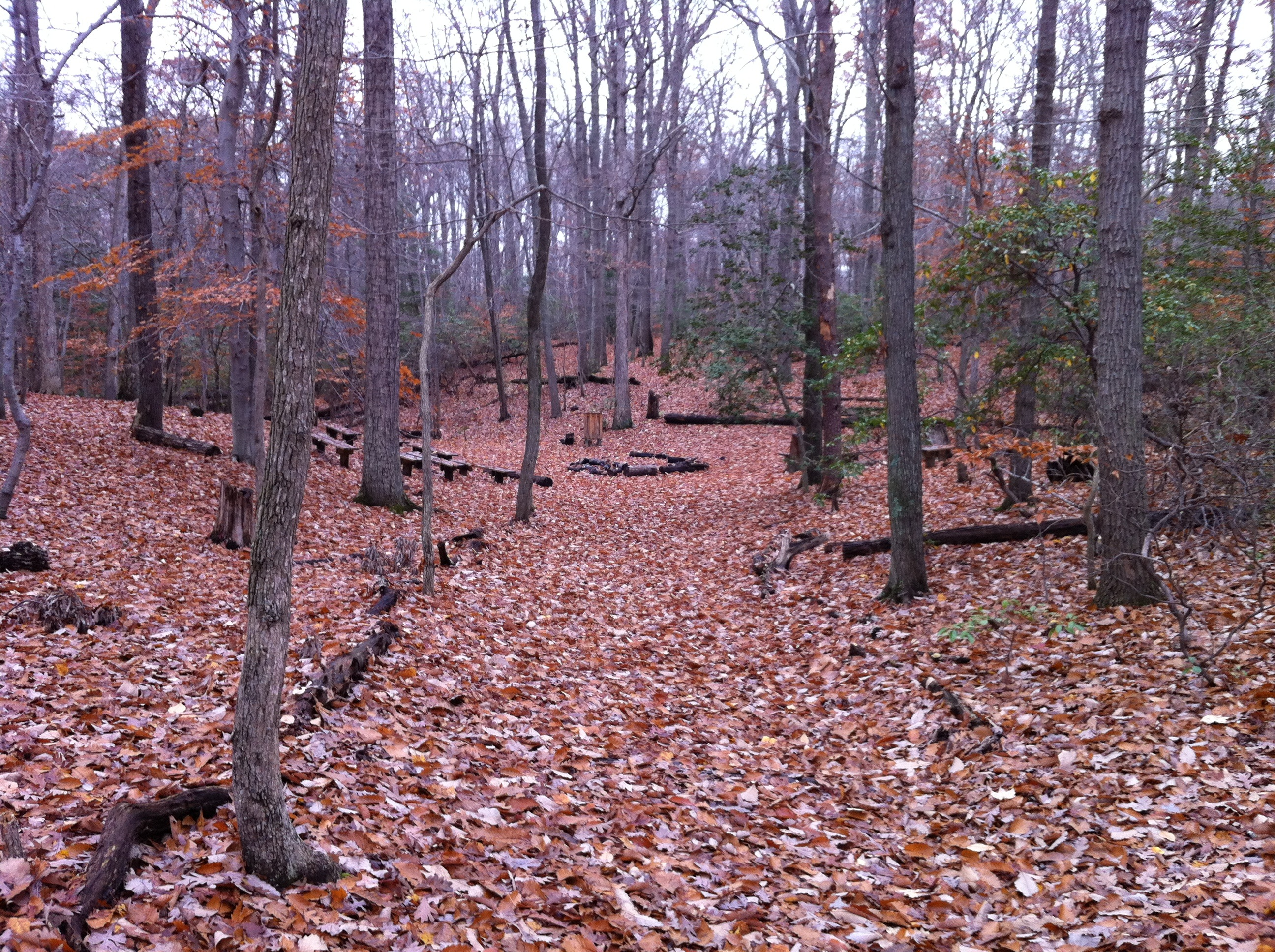 Pohick Bay, Camp Wilson Ampitheatre